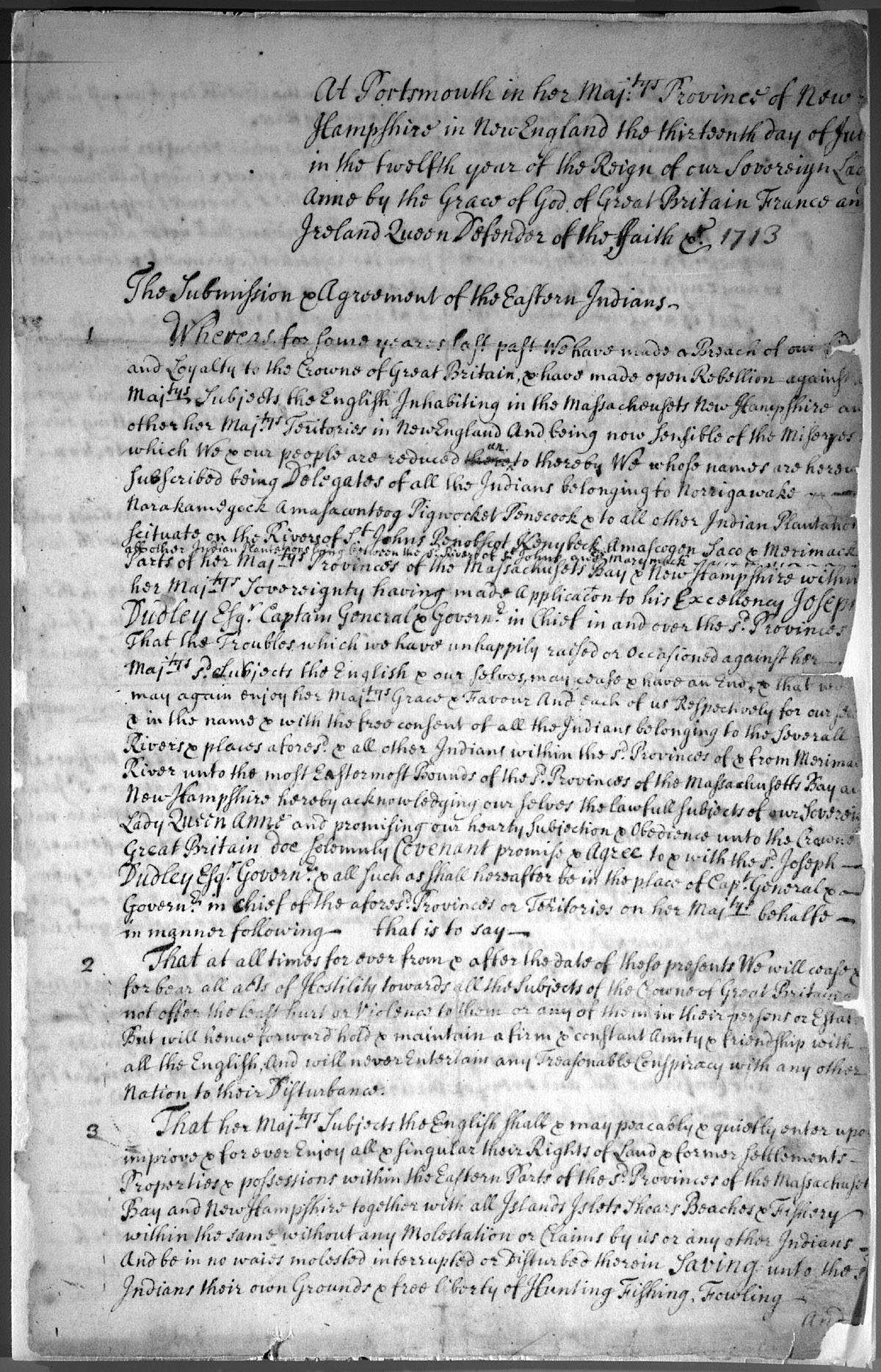 The Treaty of Portsmouth (1713), page 2.